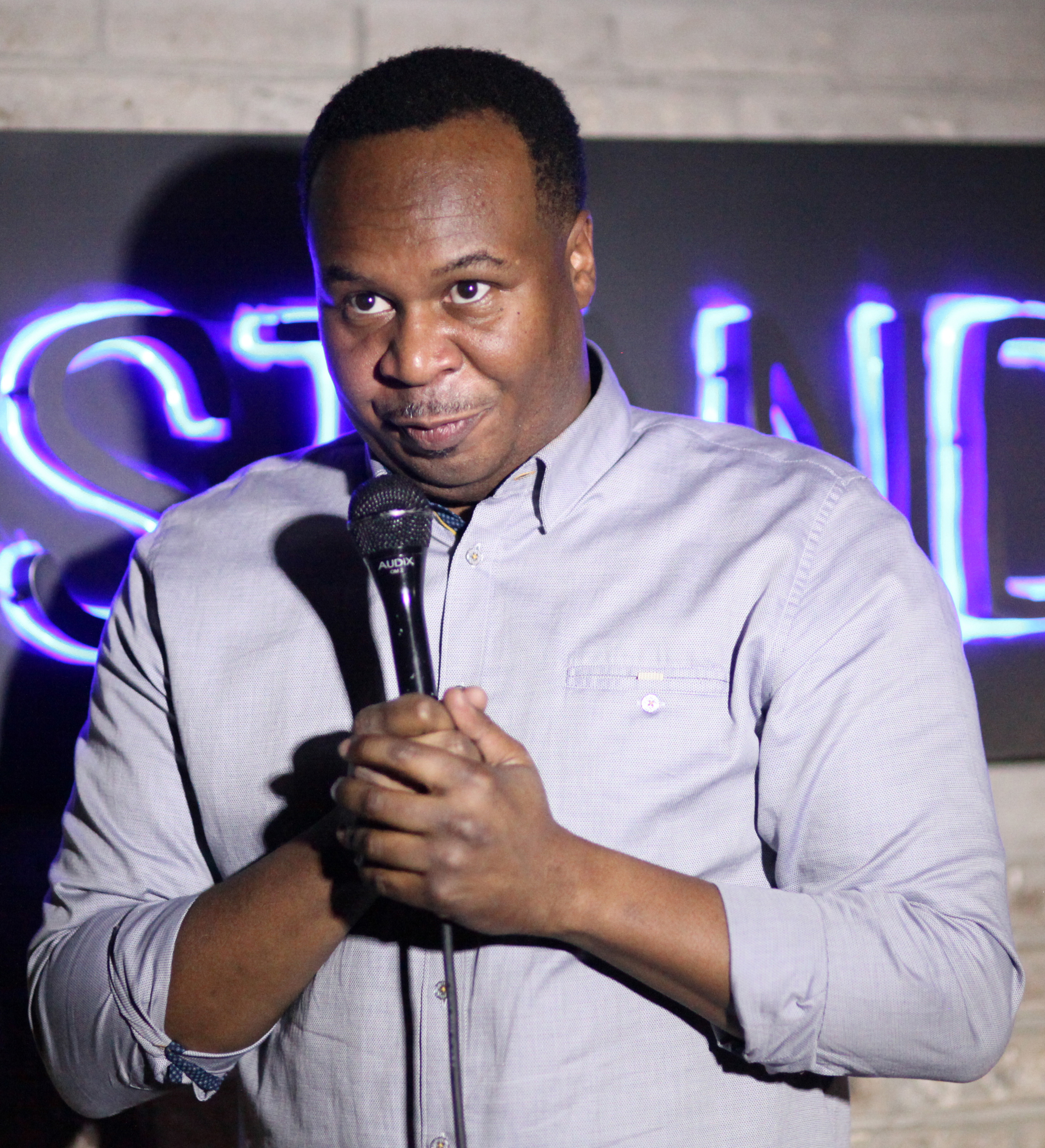 Wood performing at The Stand in December 2016.